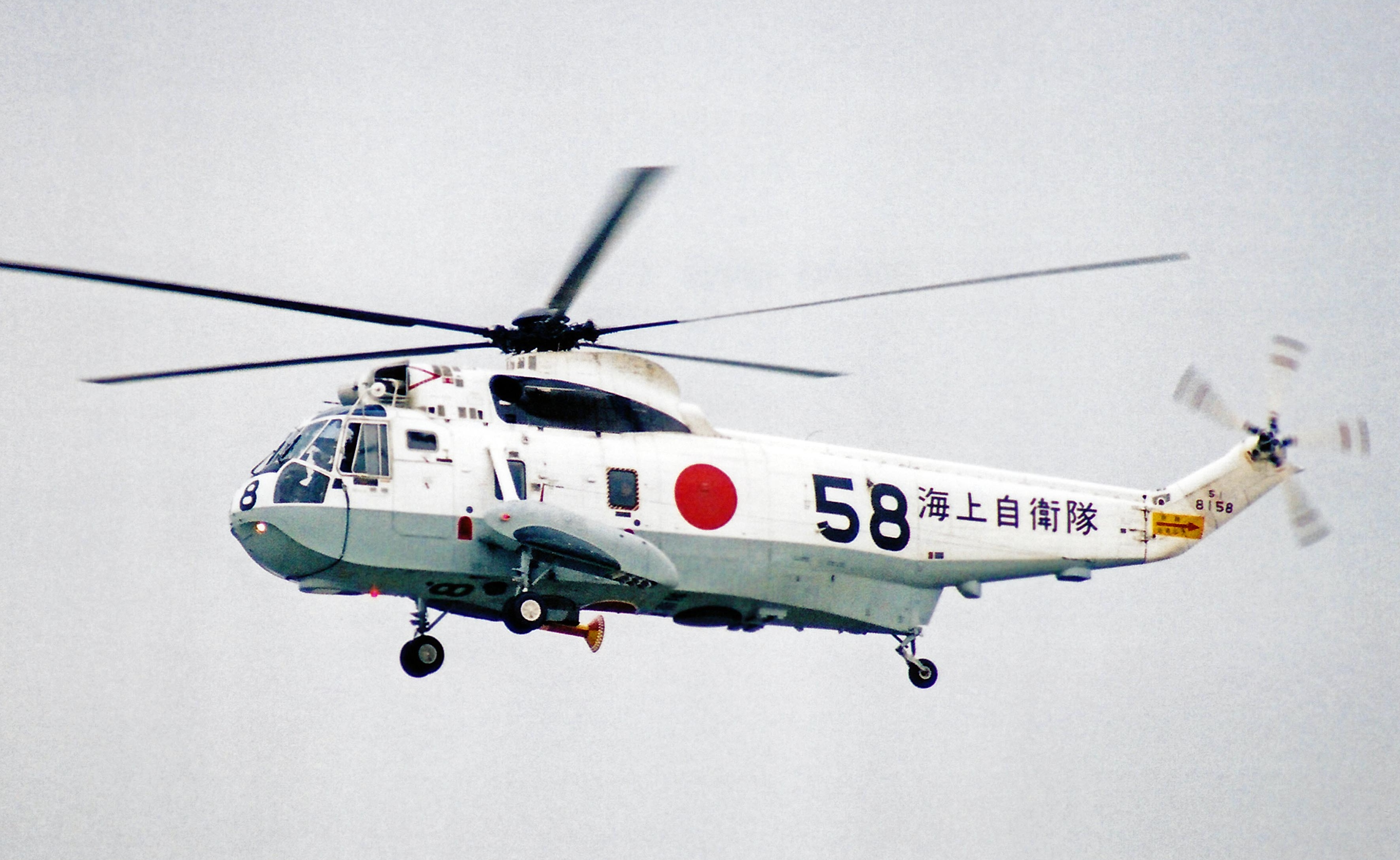 Is that a refuelling drogue I can see under the fuselage? No, it's a Magnetic Anomaly Detector, used for detecting submerged submarines.